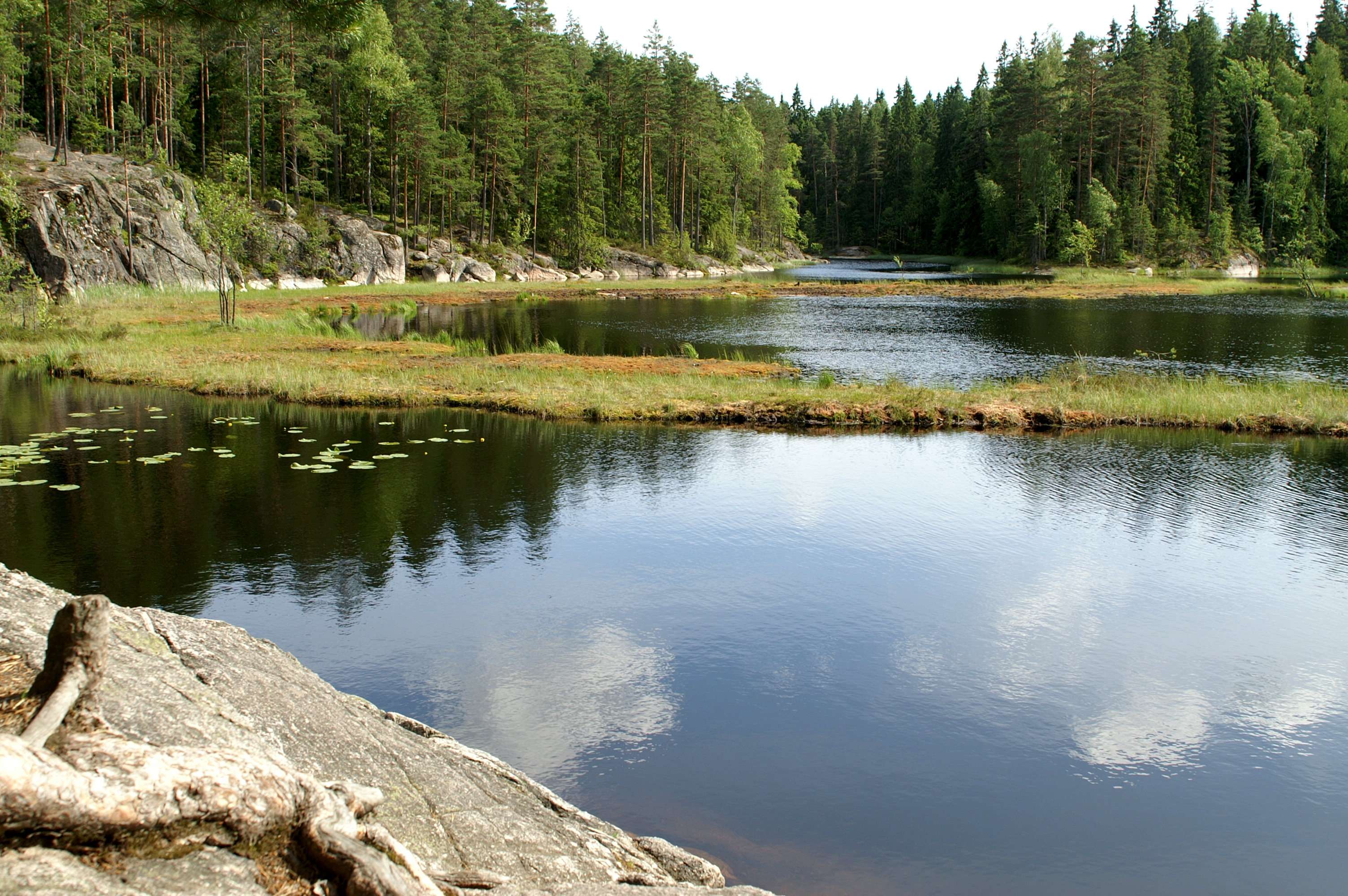 Peat accumulations in a lake in Nuuksio national park